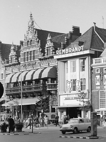 Left: cafe-restaurant Brinkmann, located in the building called De Kroon from 1902. Right: cinema Rembrandt, which succeeded cinema De Kroon around 1930.